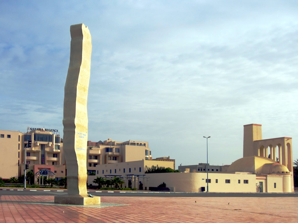 This striking monument reflects the shape of the Dakhla Peninsula. In the background are the upscale Hotel Sahara Regency (left) and the Spanish-era Catholic Cathedral (right).